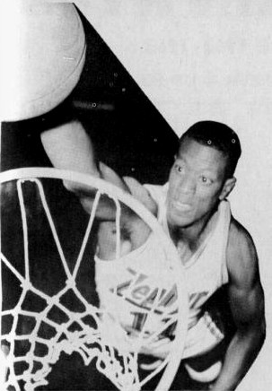 Professional basketball player Bill McGill